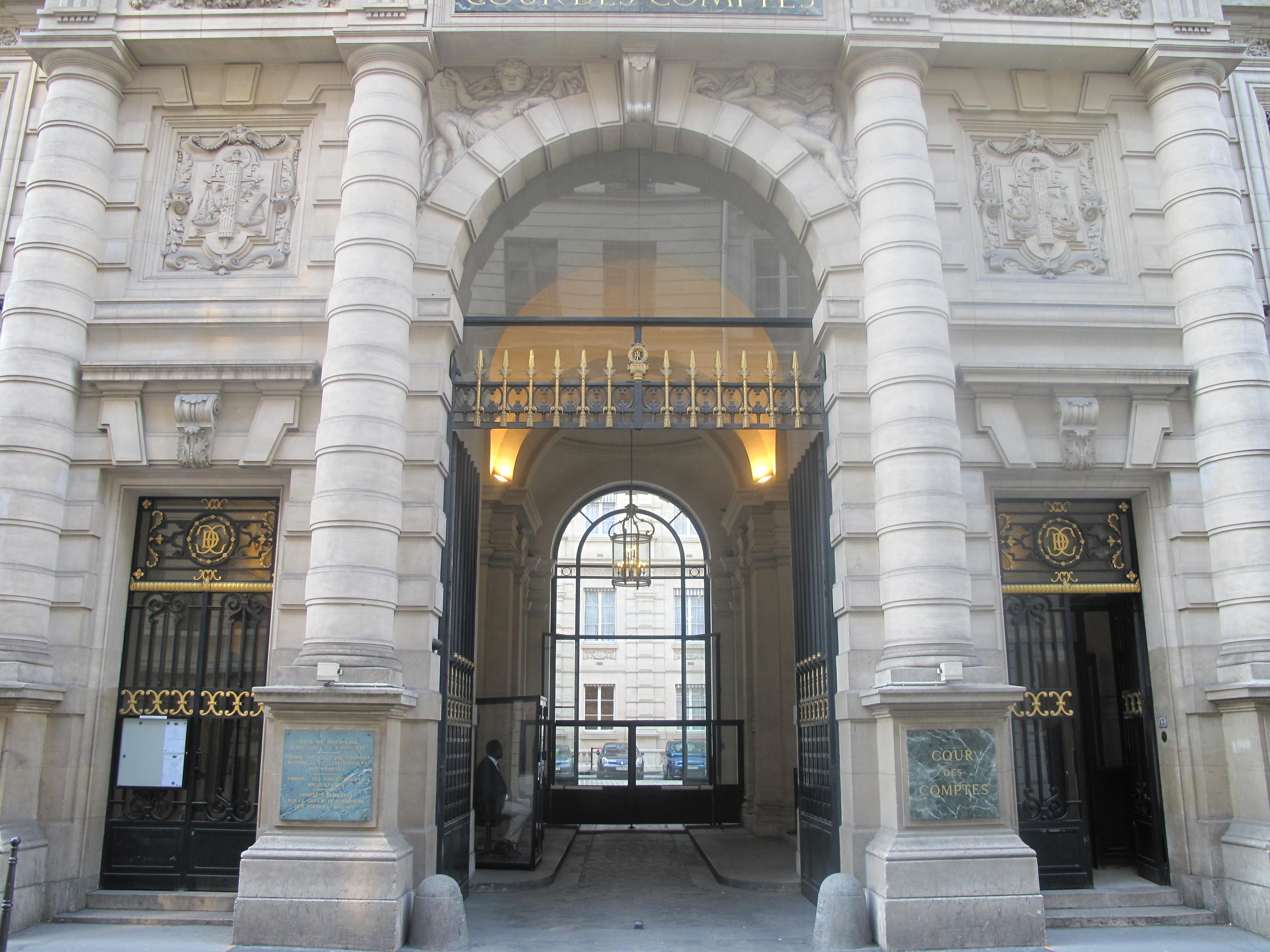 Entrance of the building of the Cour des Comptes : 13 rue Cambon, Paris 1st arr.